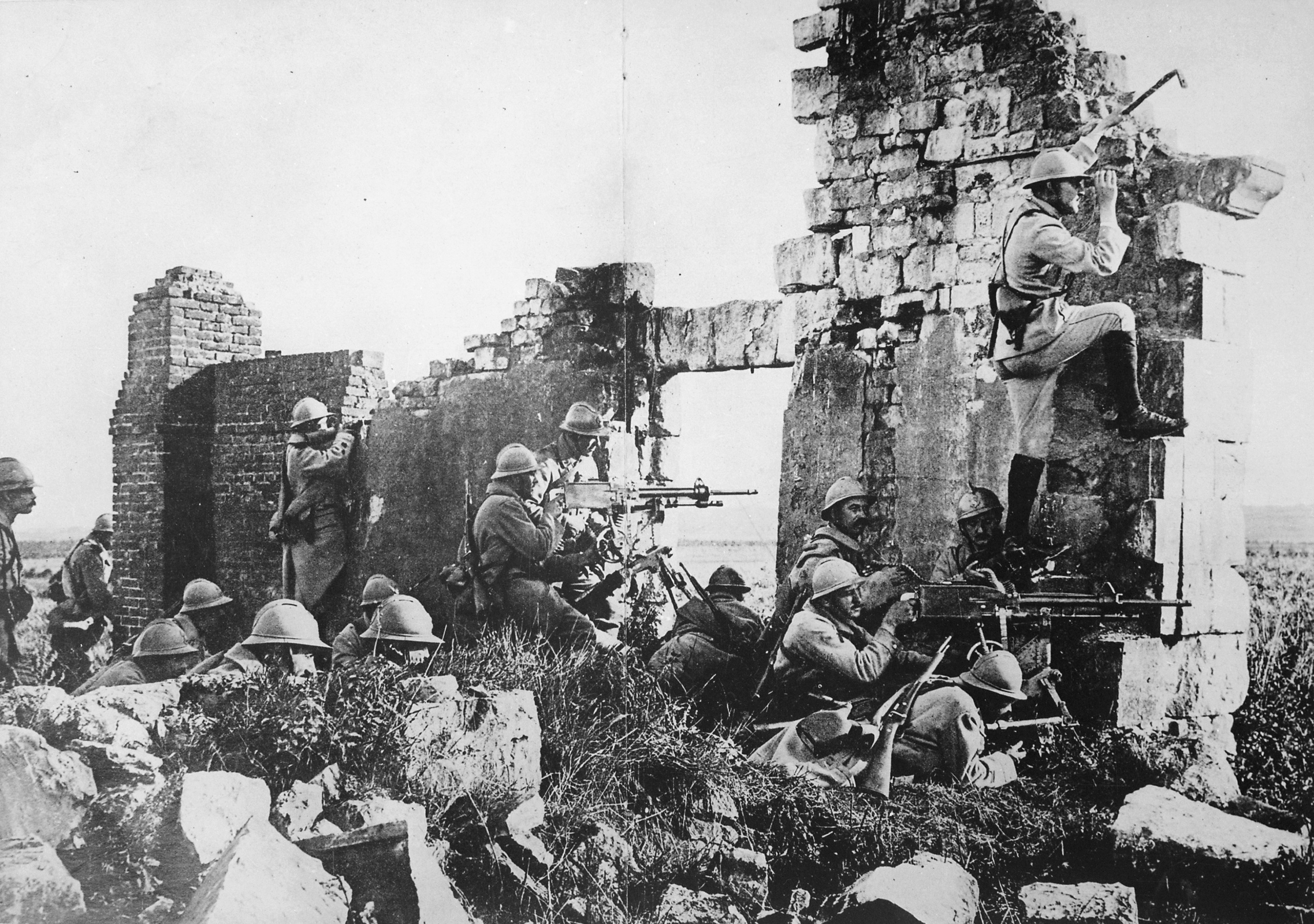 French troopers under General Gouraud, with their machine guns amongst the ruins of a church near the Marne, driving back the Germans. 1918. Central News Photo Service. (War Dept.) Exact Date Shot Unknown NARA FILE #: 165-WW-286-36 WAR & CONFLICT BOOK #: 619